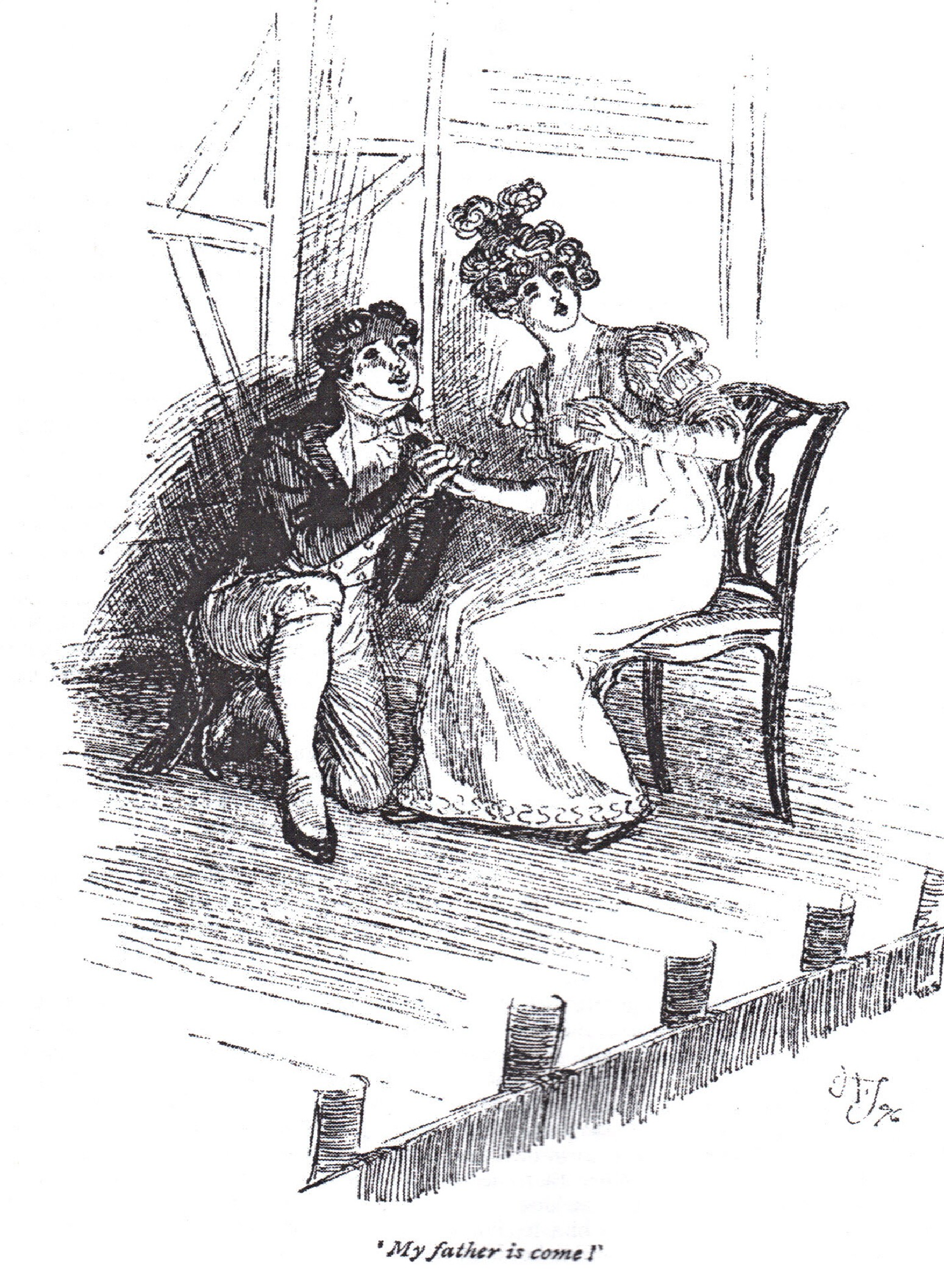 Illustration for Mansfield Park, ch. 48: "My father is come!"